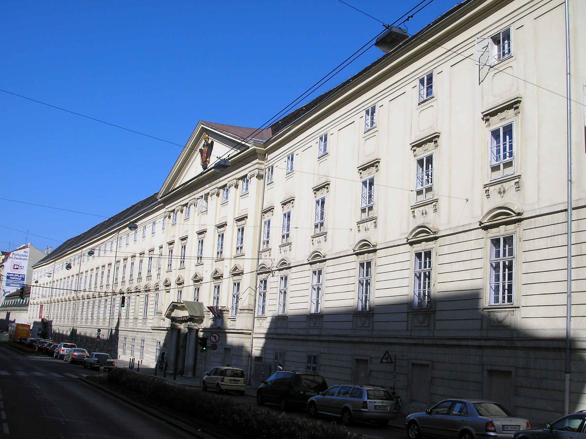 Image of the Alte Favorita palace, built for Empress Maria Theresia of Austria, today housing the elite Theresianum Gymnasium and the Diplomatic Academy of Vienna. Building is therefore sometimes also known generally as Theresianum.